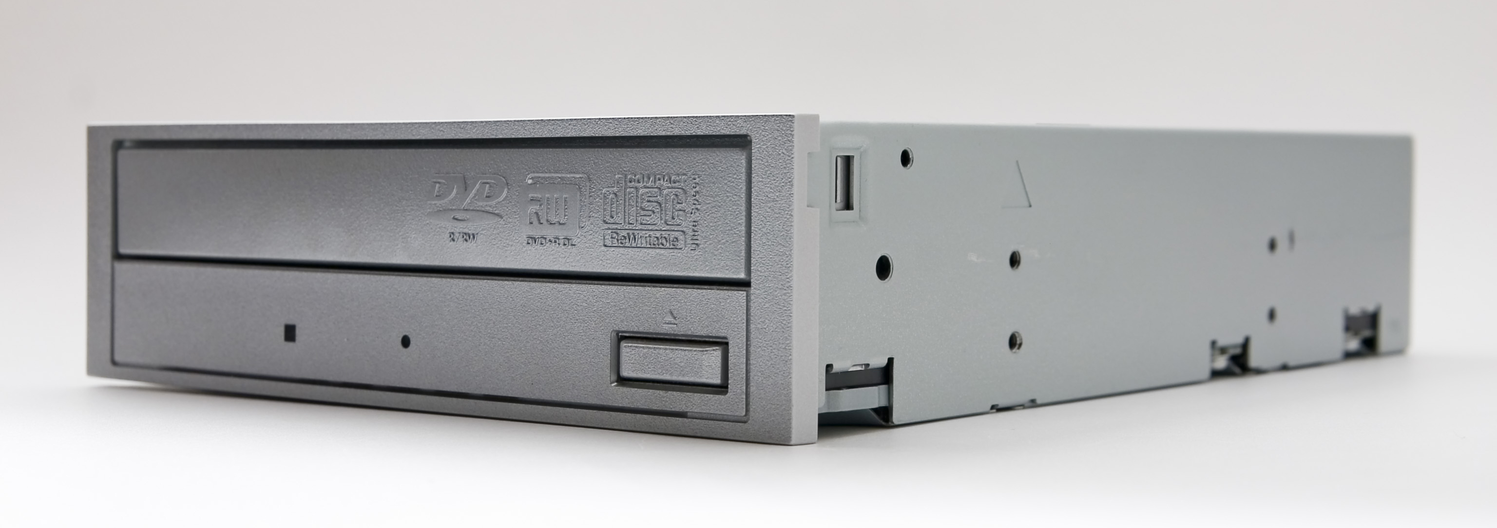 Optical disc drive, CD/DVD writer from the early 2000's. Picture created by User:PJ and User:Piko using a Canon EOS 300D camera with the Tamron 28-75 mm f/2.8 lens.